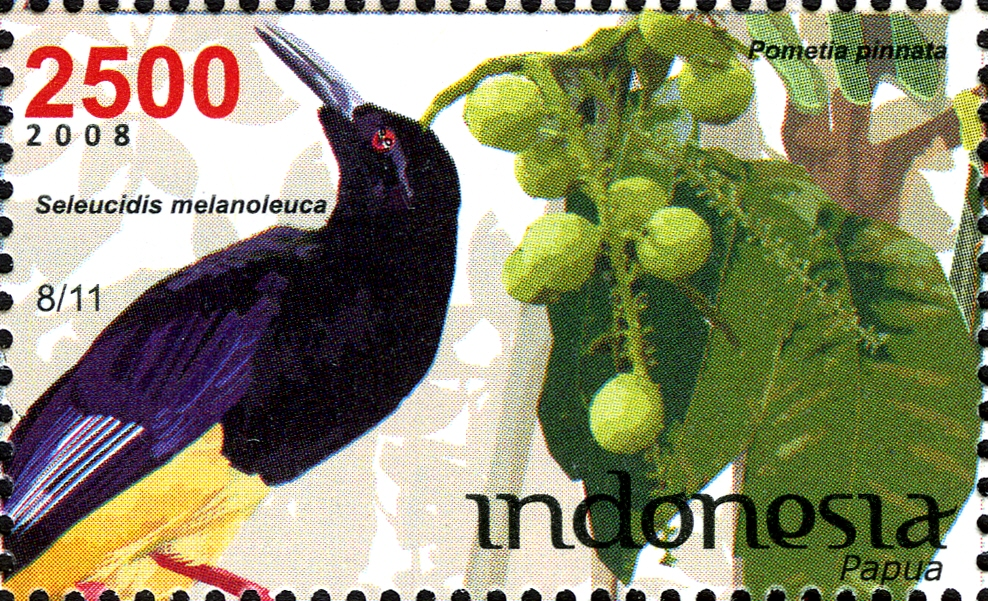 Stamps of Indonesia